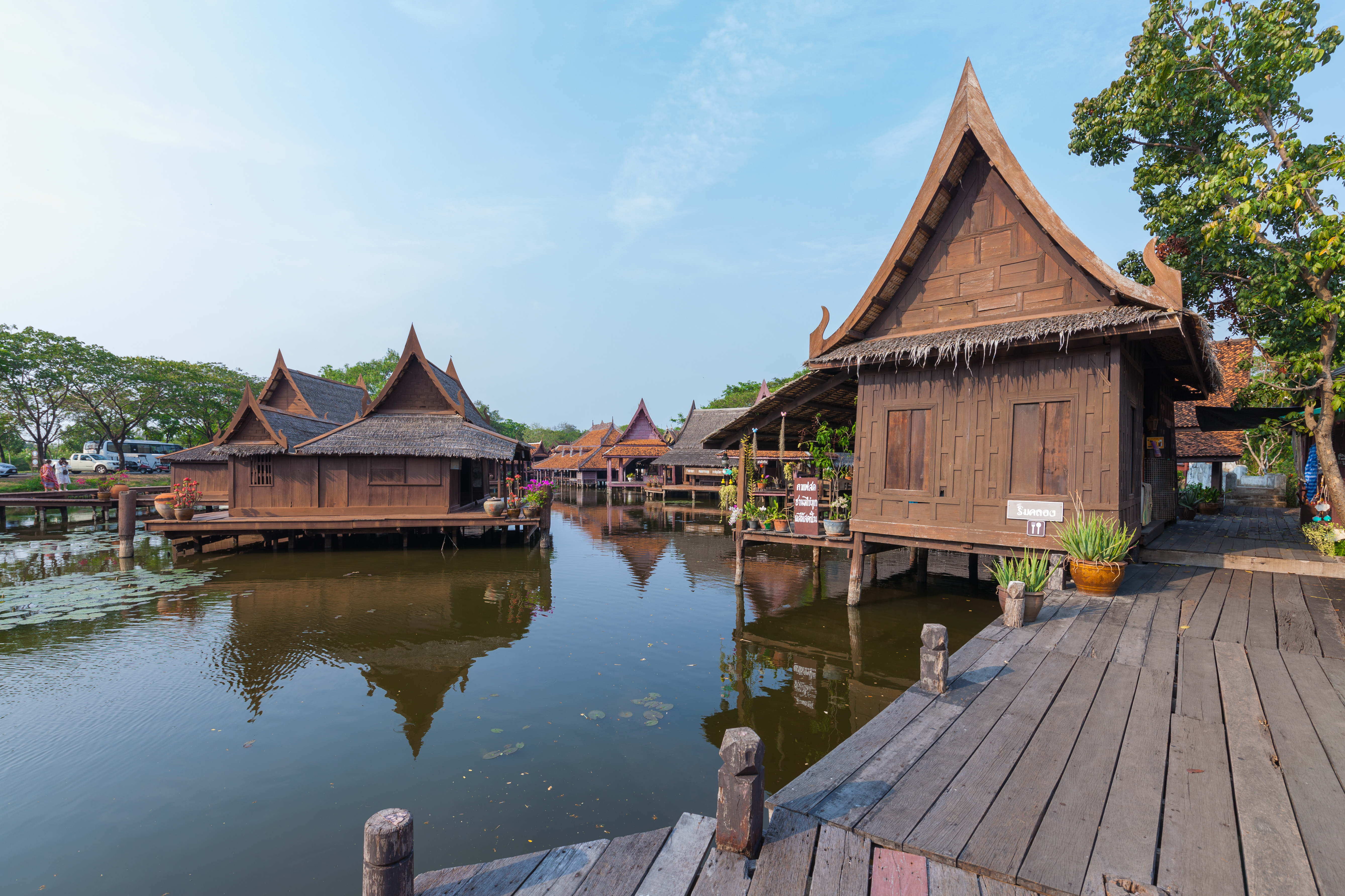 The Floating Market in Ancient City (Mueang Boran), Samut Prakan Province.